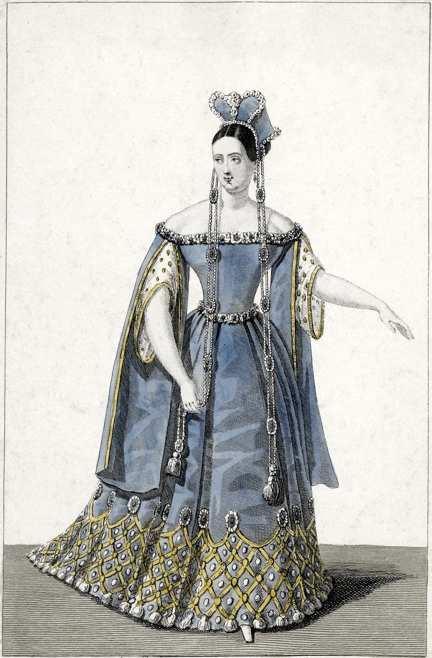 Mademoiselle George (1787–1867) as Isabeau de Bavière In Périnet Leclerc.